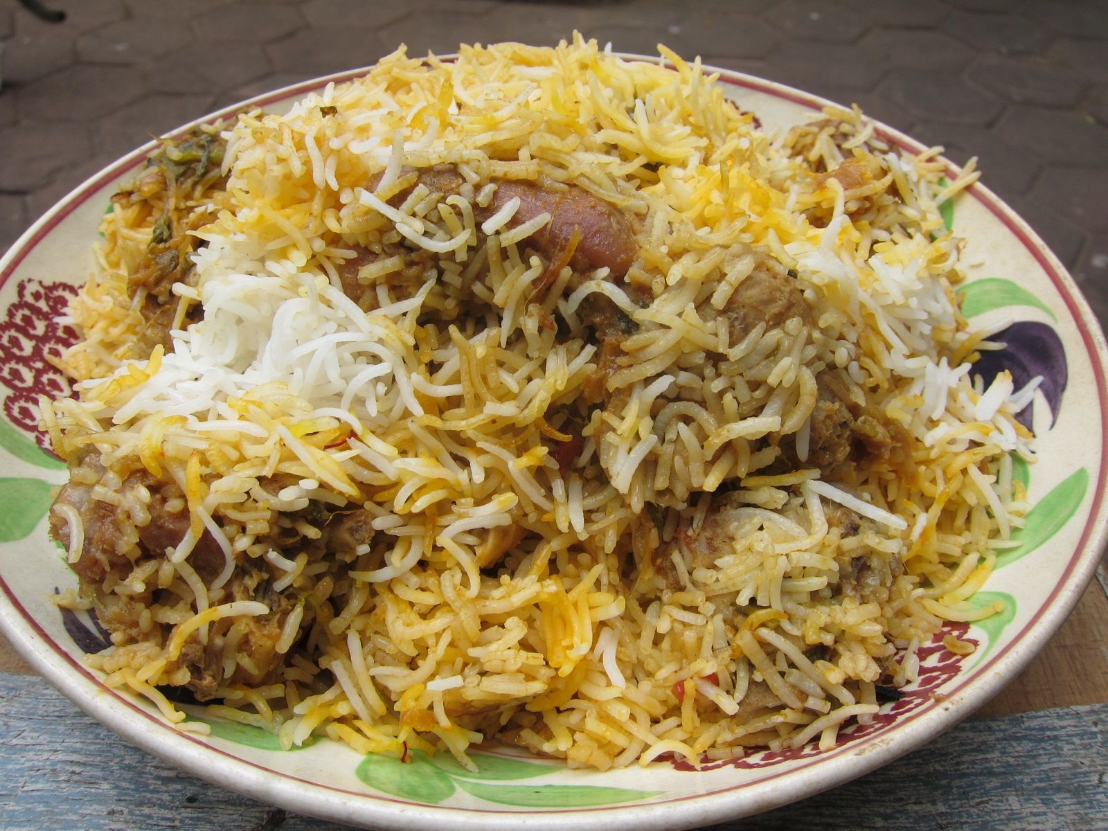 biryani